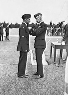 AWM Caption:: POINT COOK, VIC. 1944-01-11. AIR VICE MARSHAL W. H. ANDERSON, CBE DFC, RAAF, AIR MEMBER FOR PERSONNEL, PINNING "WINGS" ON LEADING AIRCRAFTMAN R. H. MOORE AT A PASSING OUT PARADE.